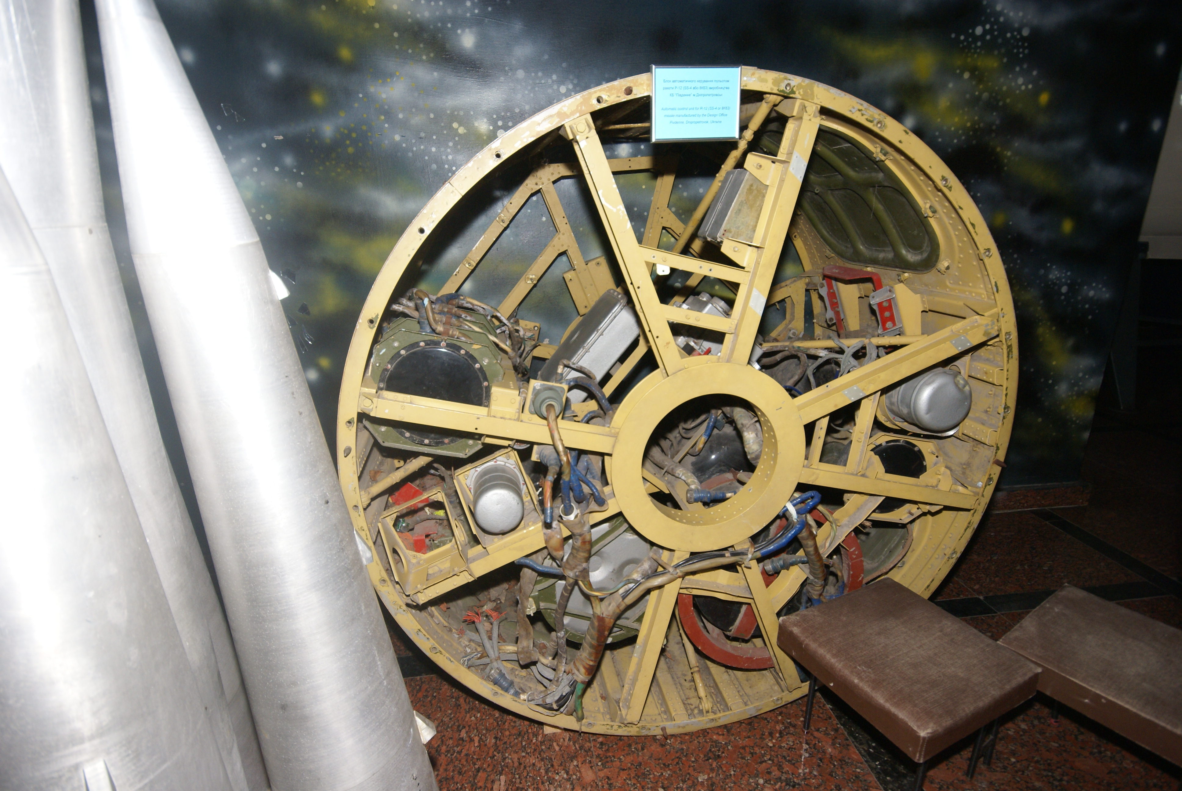 One surviving Instrument (Control) Section from a R-12 (SS-4) Missile, in the Zhitomir S.P. Korolev Astronautics Museum.